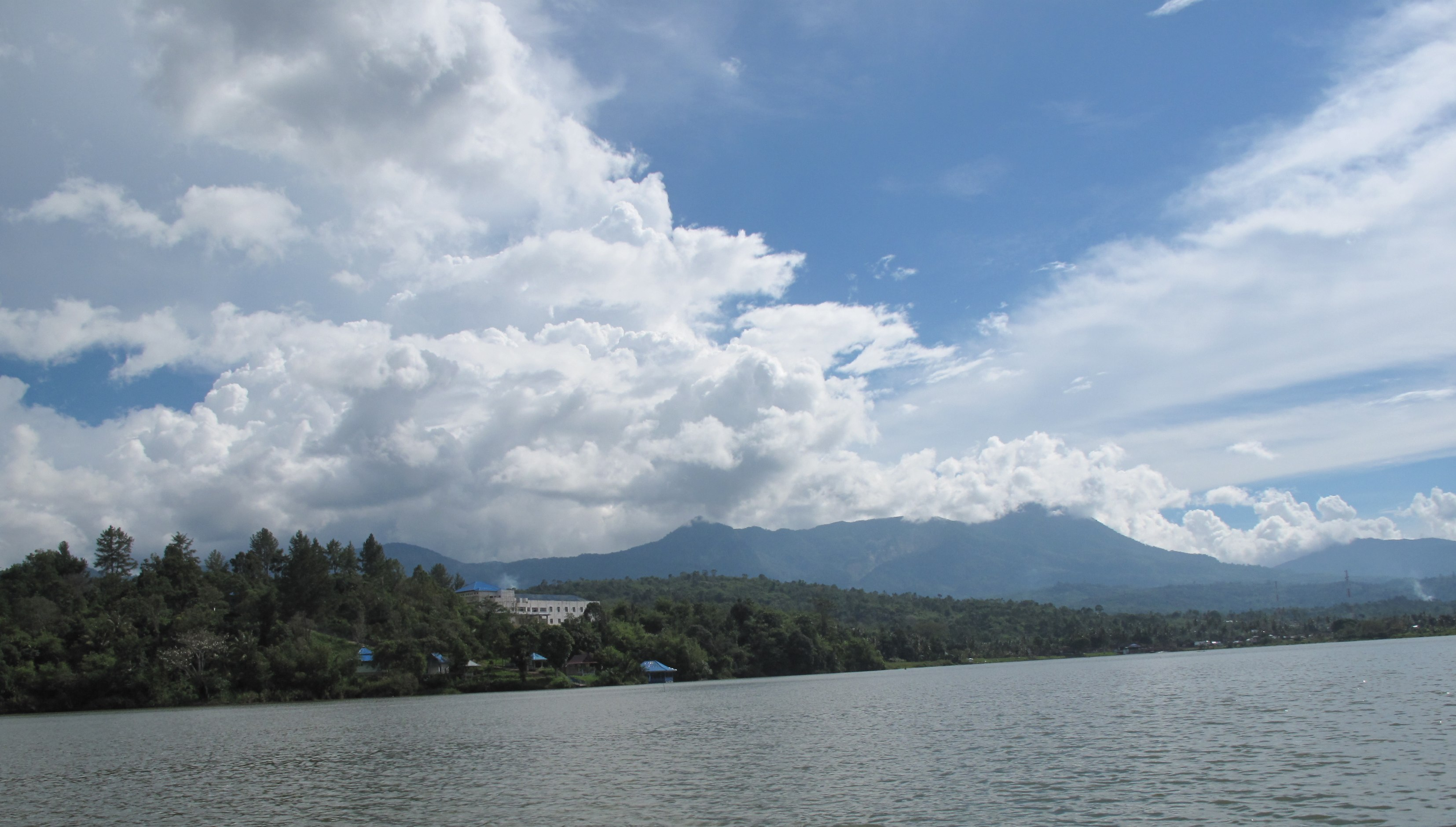 Tes Lake Lebong Regency, Bengkulu